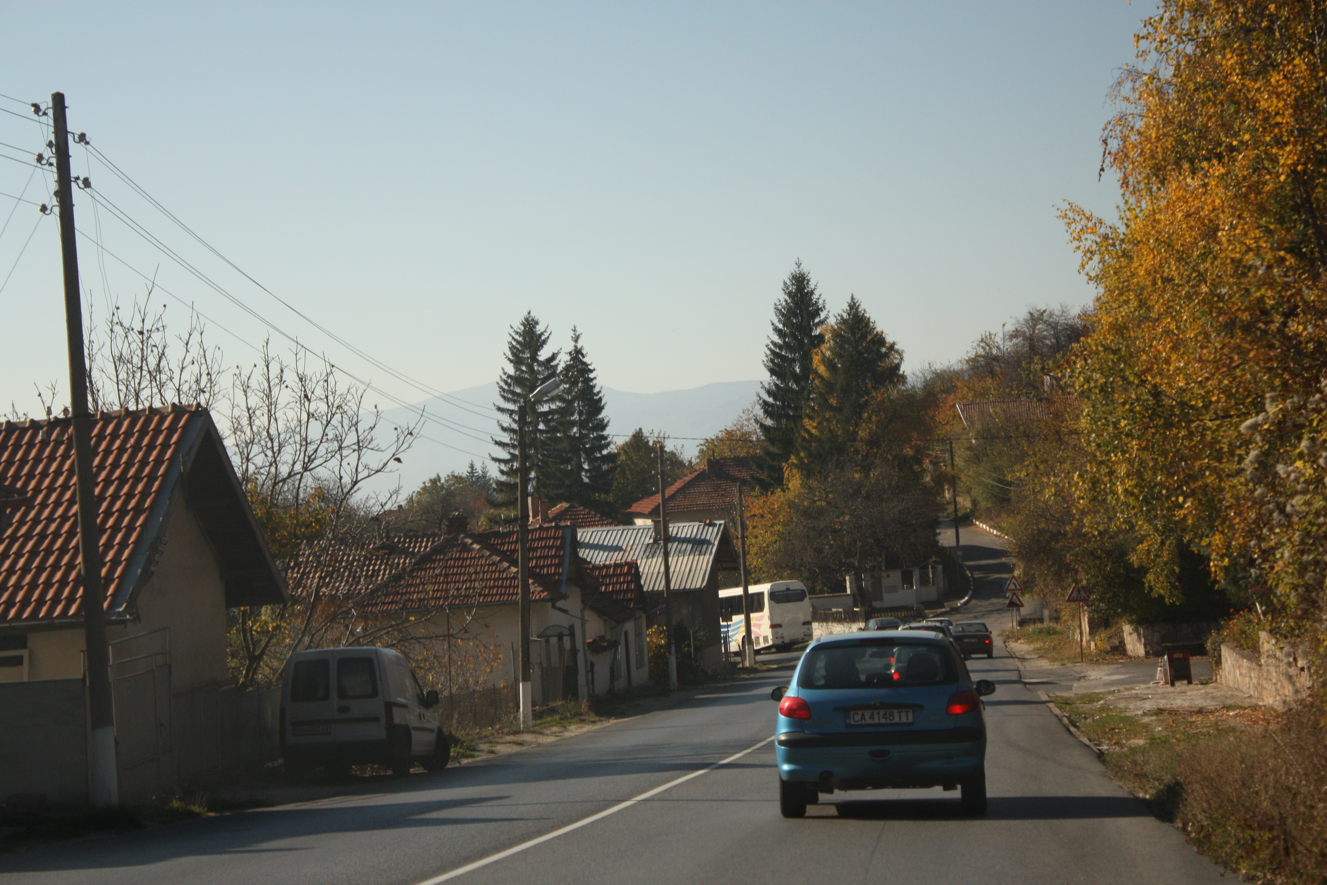 Tsarvenyano main street